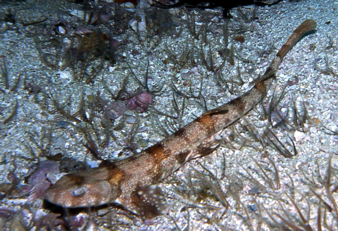 a photo of the puffadder shyshark, Haploblepharus edwardsii, taken at Windmill Beach off the Cape Peninsula in South Africa in 10m of water using a Nikonos V camera